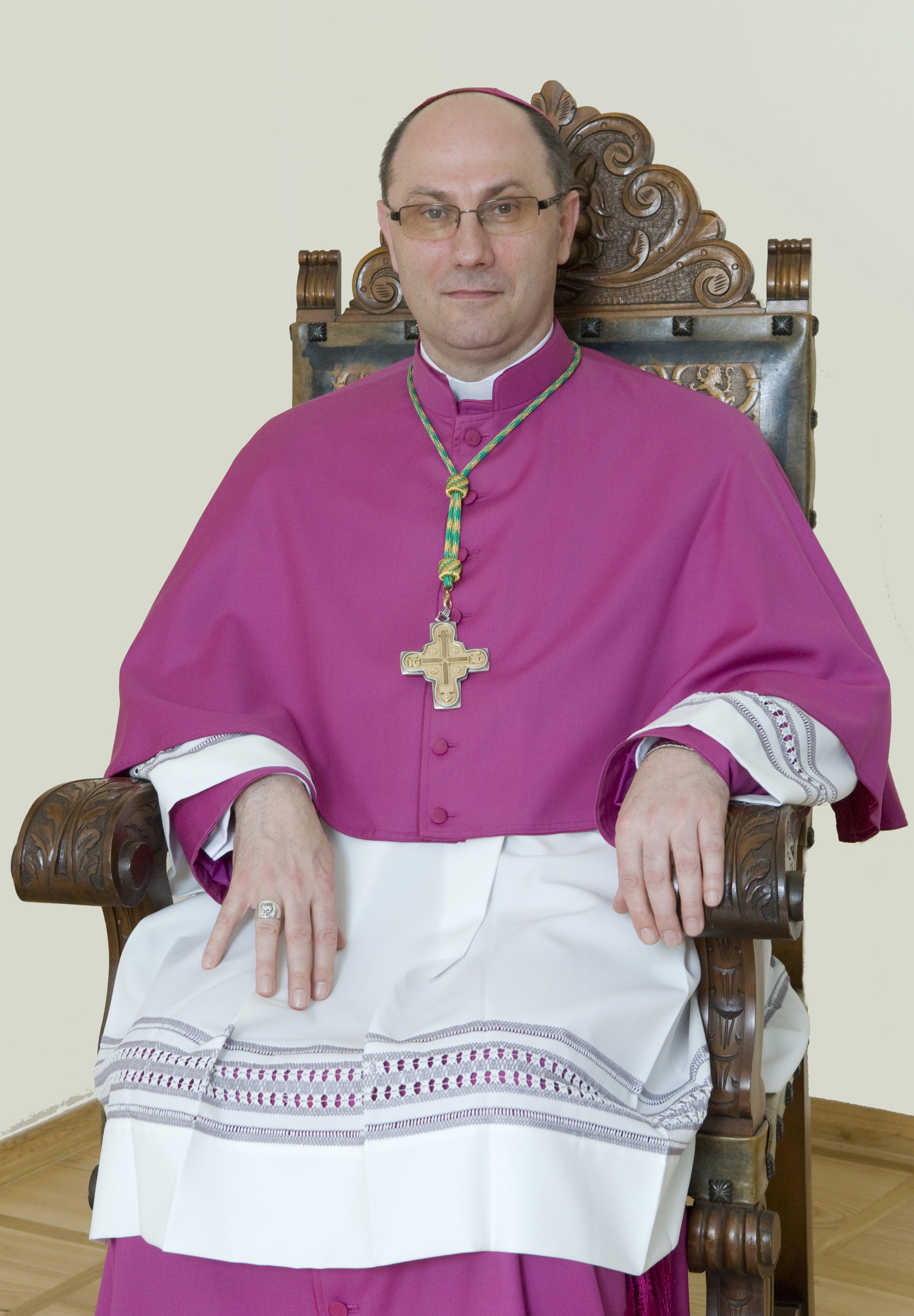 Wojciech Polak - Polish Primate